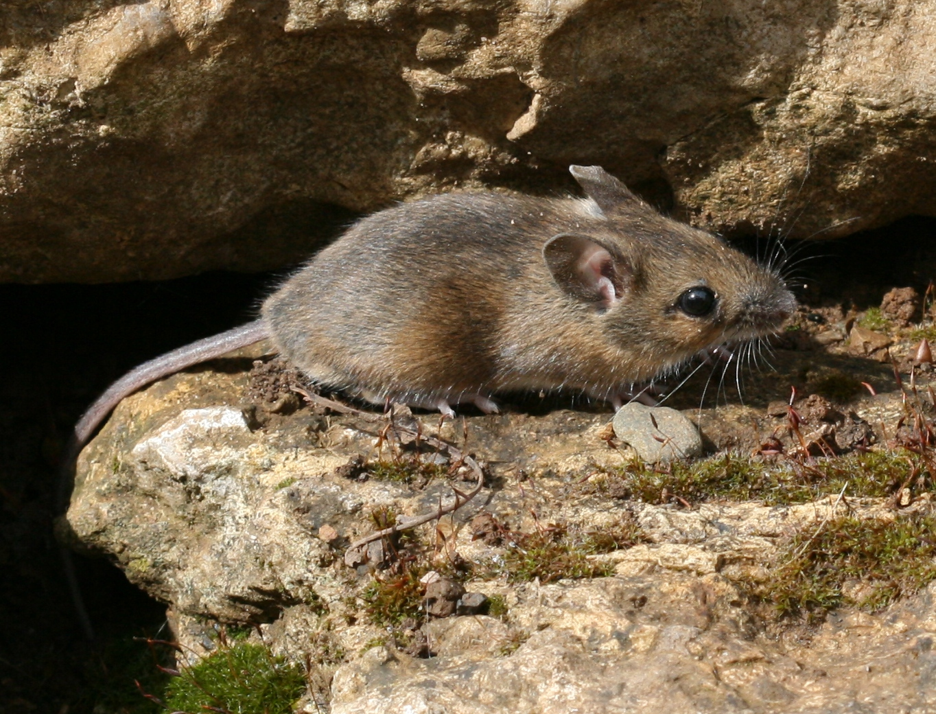 Apodemus sylvaticus (Wood Mouse)